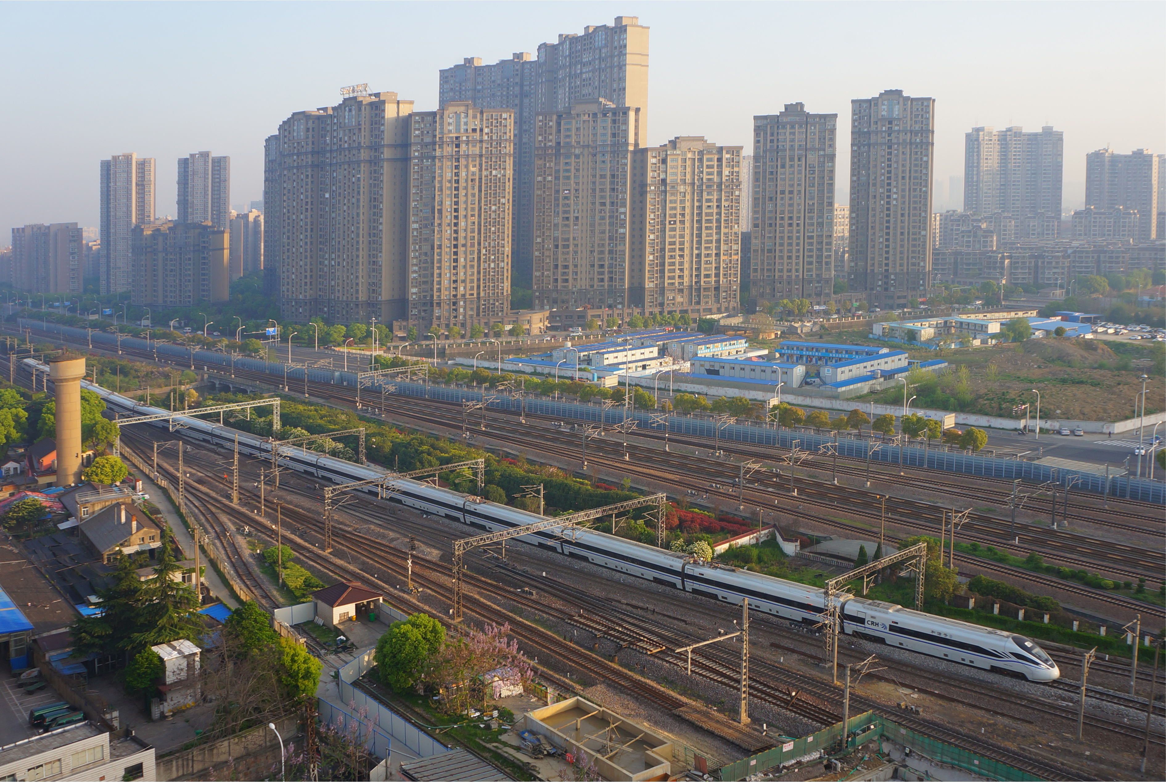 201704 D313 passes Wuxi Station